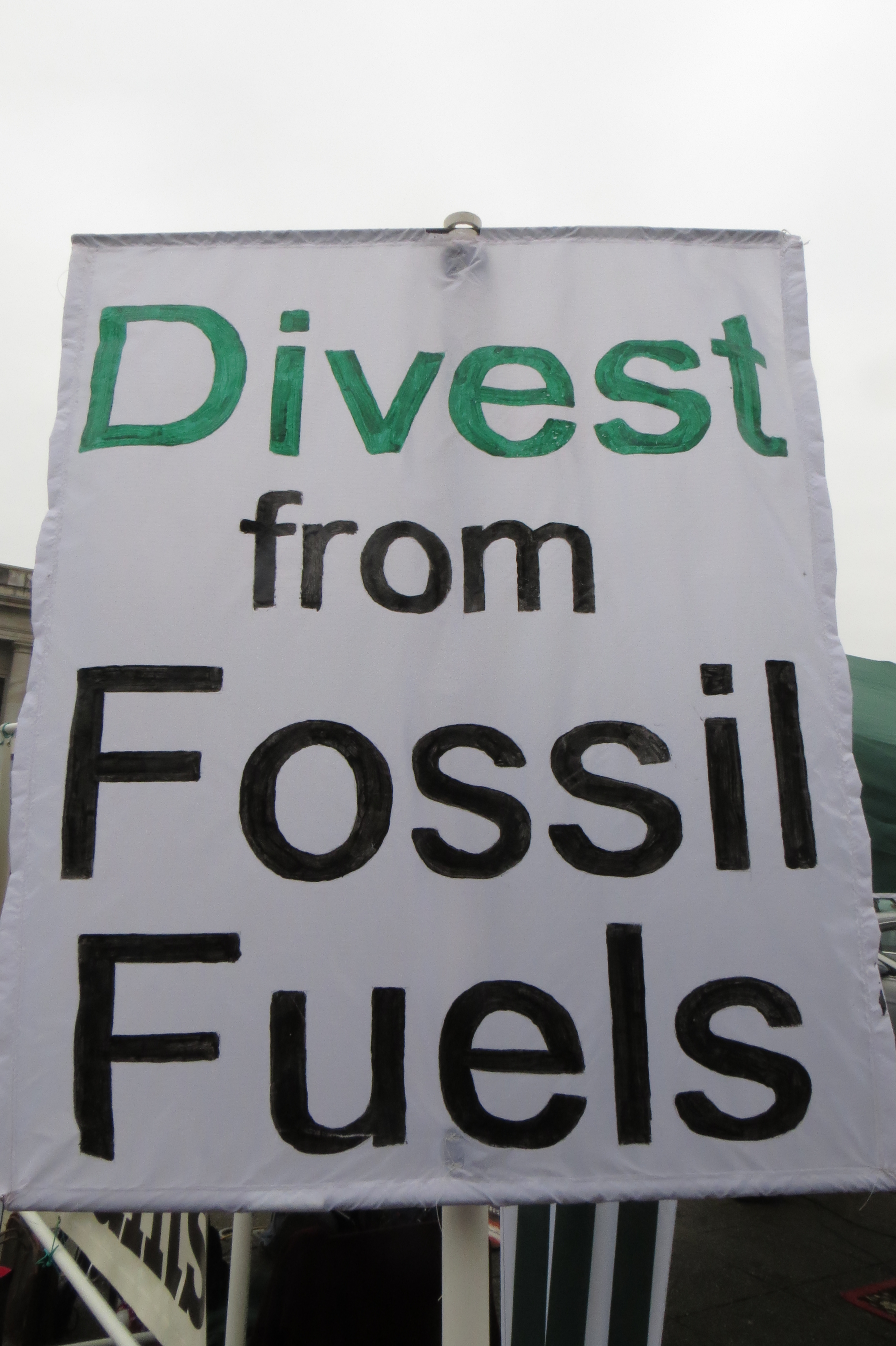 Protest at the Legislative Building in Olympia, Washington (2013.01.14)."Divest from Fossil Fuels"